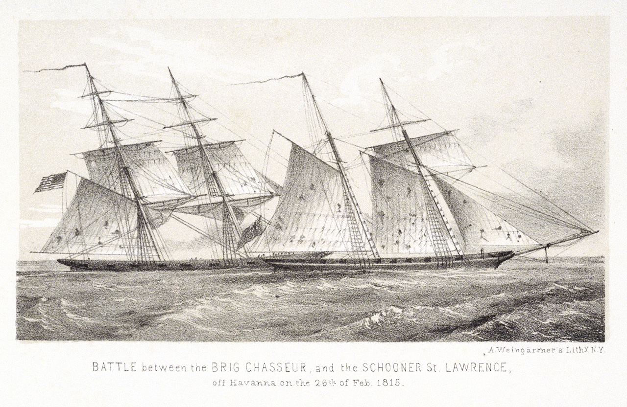 Lithograph of the engagement between the American privateer '"Chasseur and HMS St Lawrence